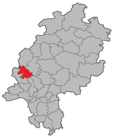 Map of the district court Weilburg in Hesse